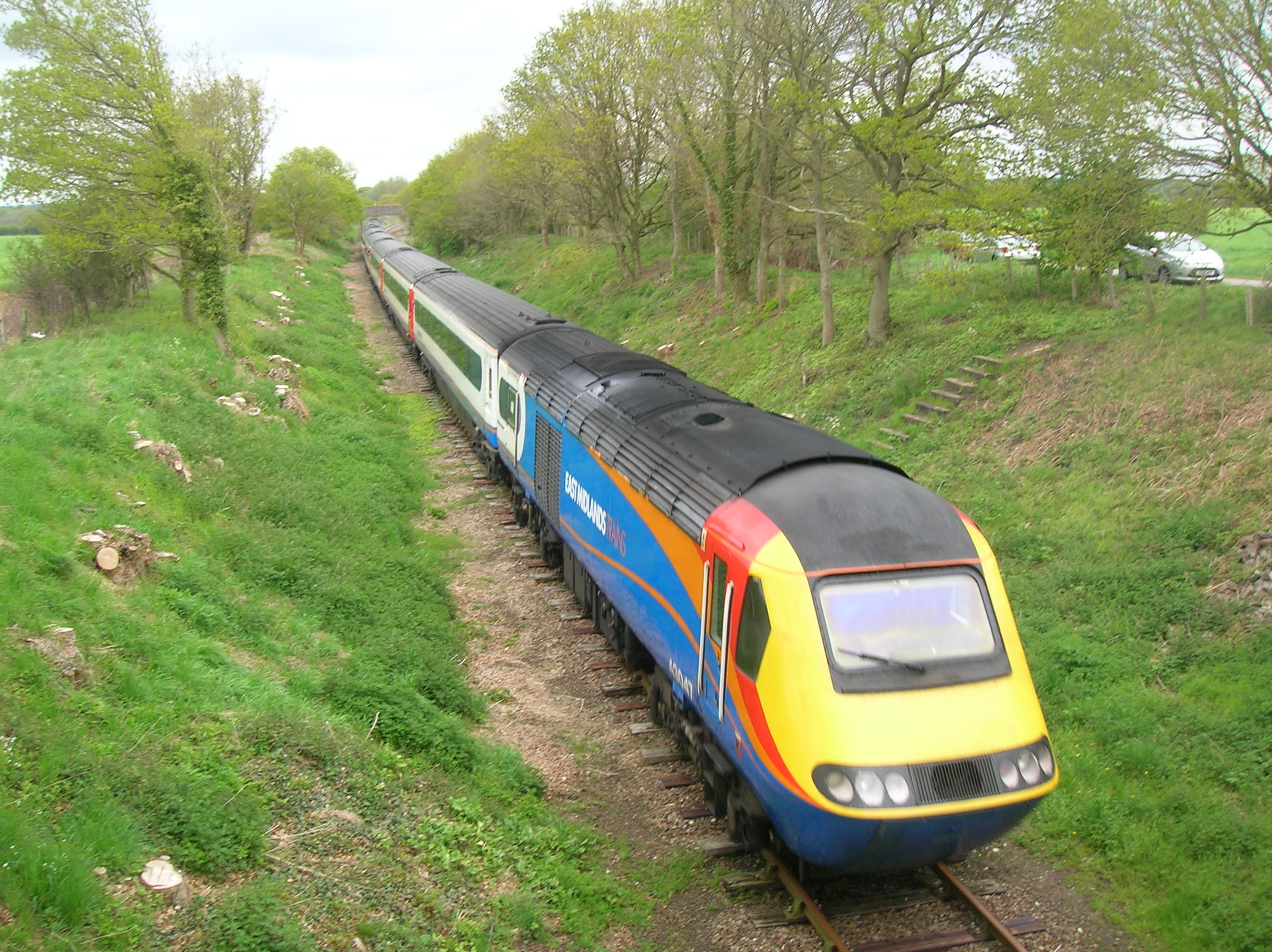 The first fare-paying passenger train to Hoe since the 1980s special services pictured in the rural section of the Mid-Norfolk Railway near Hoe.